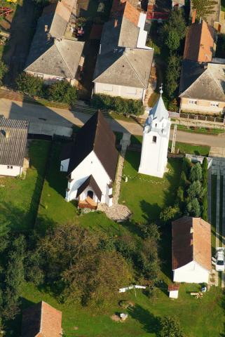 Gyügye, Hungary, aerialphotography This is a photo of a monument in Hungary, Identifier: 8246